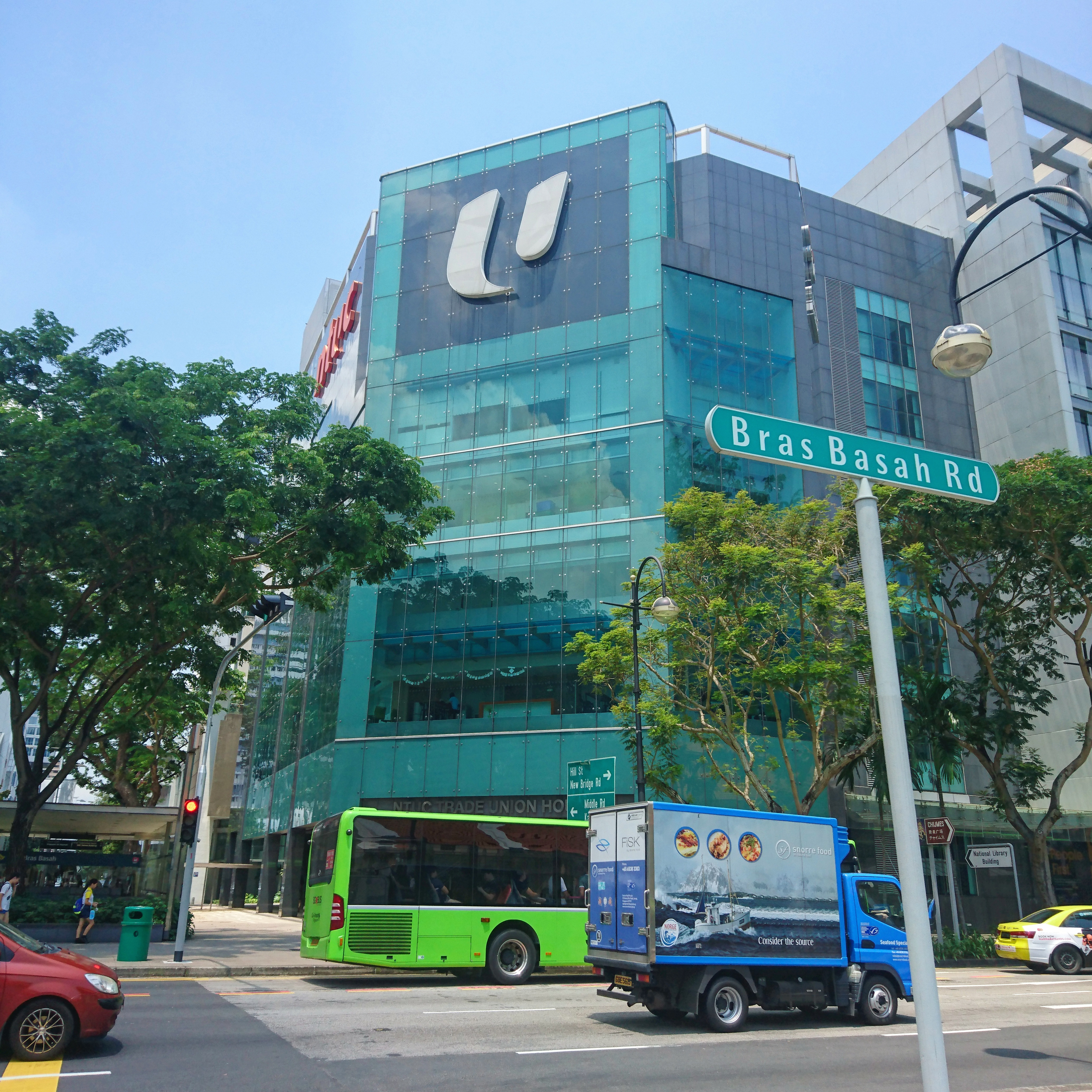 The NTUC Trade Union House at Bras Basah Road. Formerly the POSB centre, headquarters of POSB Bank in the 1980s.